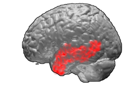 Brodmann area 21 BA 21 lies on the lateral surface (side) of the temporal lobe. The brain is viewed from the left in this image. The brain's surface is extracted from structural MRI data (Wellcome Dept. Imaging Neuroscience, UCL, UK). The Brodmann Area data is based on information from the online Talairach demon (an electronic version of Talairach and Tournoux, 1988). These images were created using Blender and Matlab. reference:Talairach, J., and Tournoux, P. Co-Planar Stereotactic Atlas of the Human Brain., New York: Thieme, 1988.